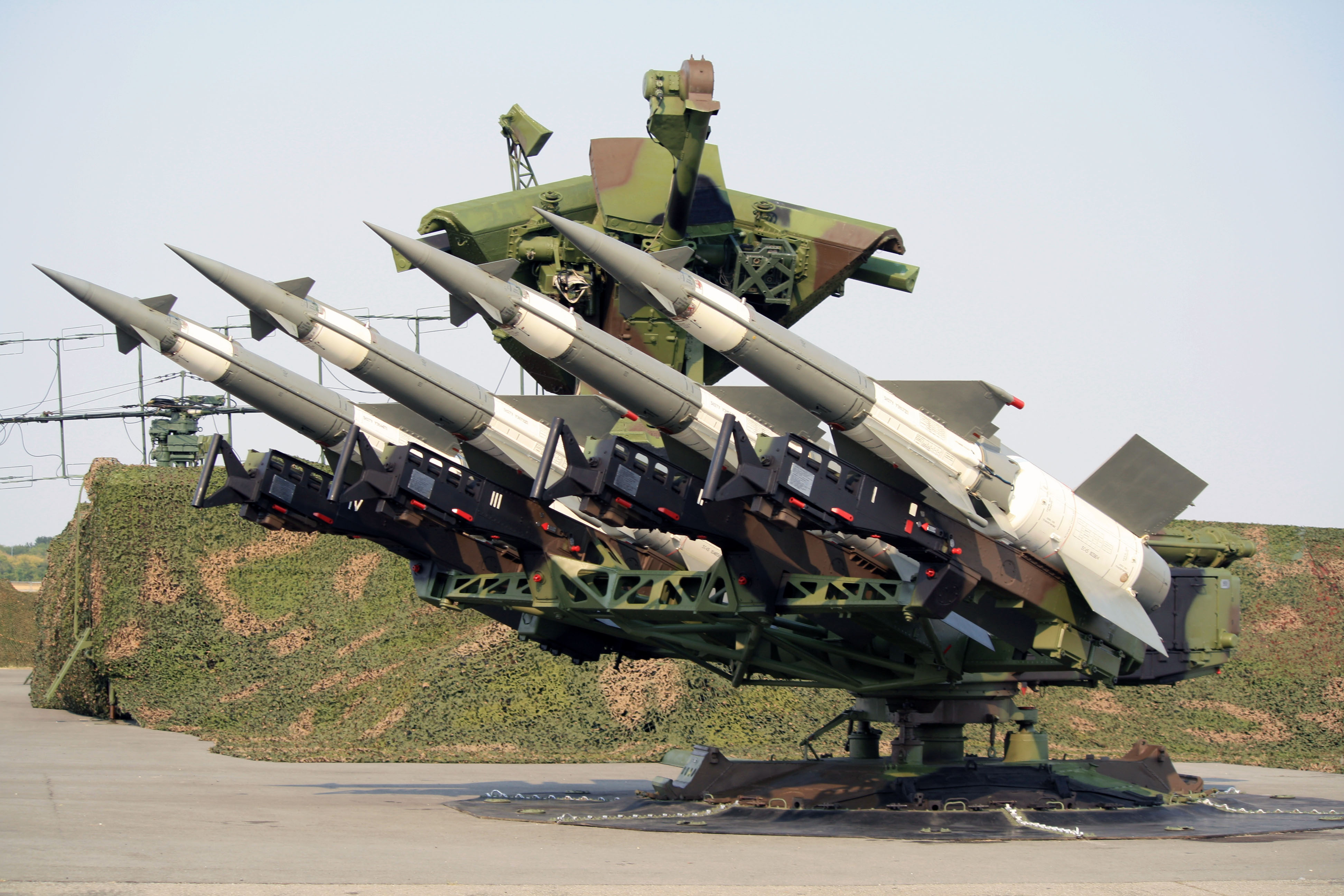 S-125 Neva air defense system from 250th Air Defense Brigade of Serbian Army on display at Batajnica airbase during the Batajnica 2012 open day.